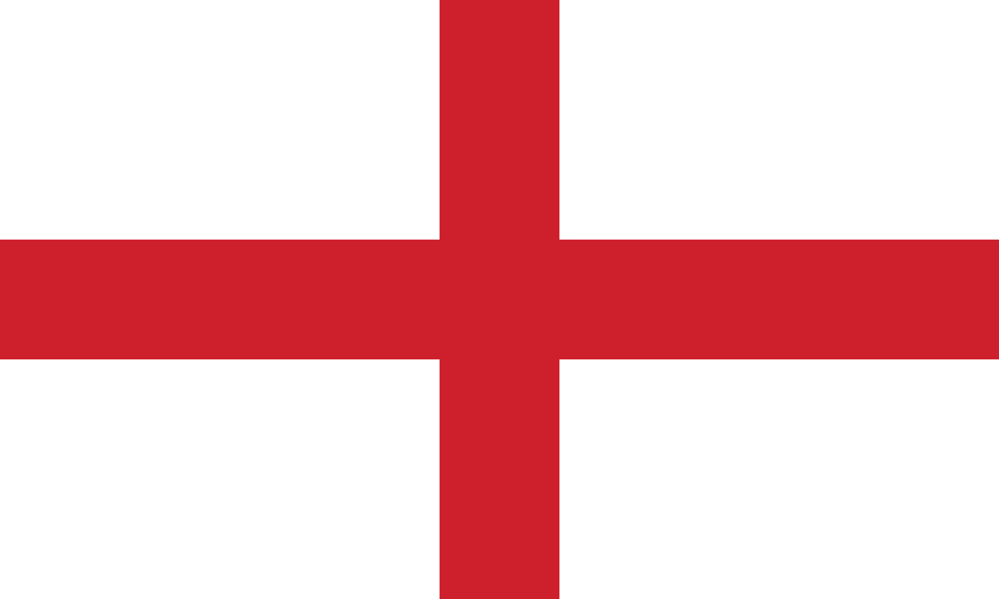 Red Saint George's Cross